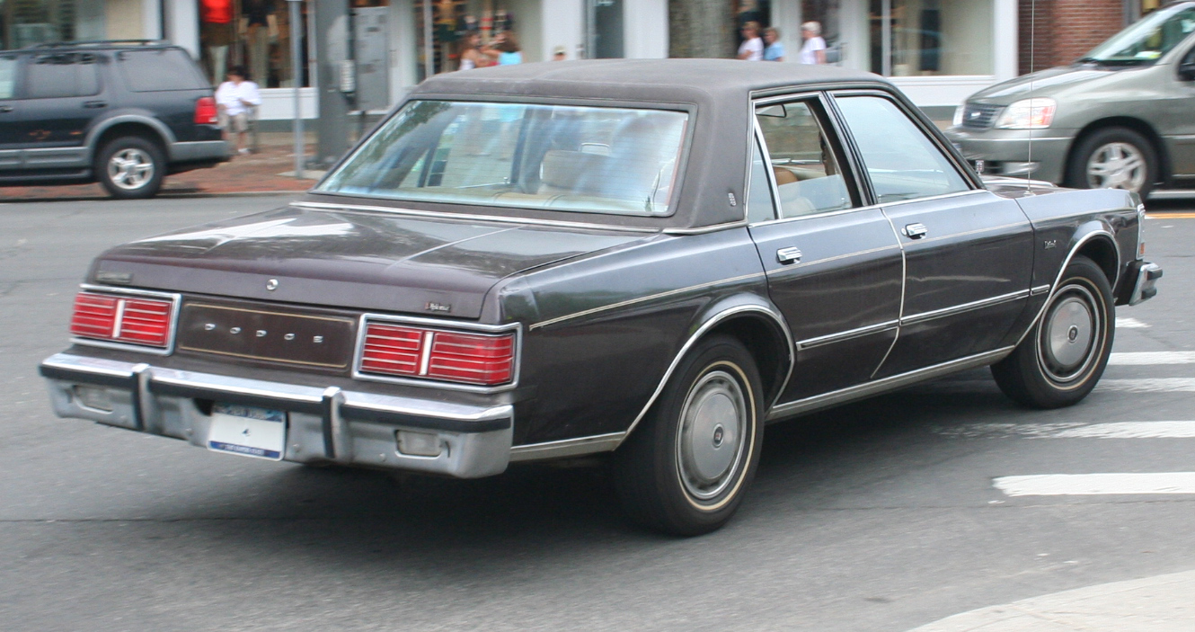 First generation (1979) Dodge Diplomat, seen in East Hampton, NY.